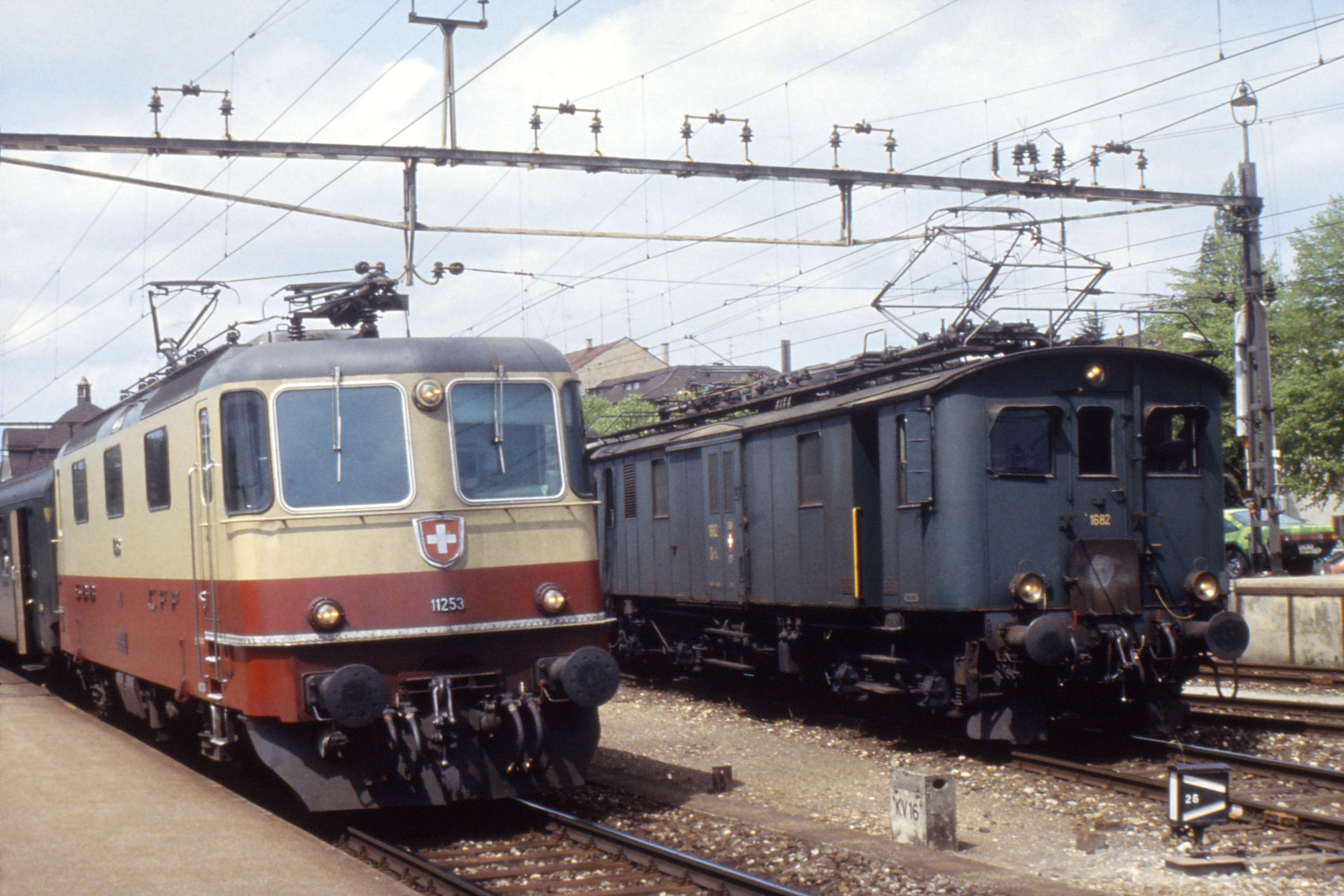 SBB Re 4/4" 11253 in Trans Europ Express livery beside motor coach De 4/4 1682